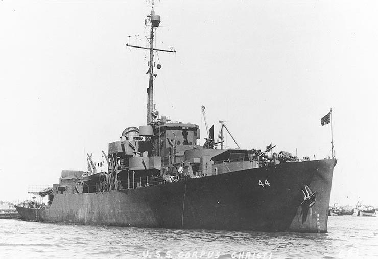 USS Corpus Christi (PF-44) in port, c. 1945. Courtesy of Donald M. McPherson, 1971. Cropped from image at US Navy Photo NH 74296 Naval Historical Center